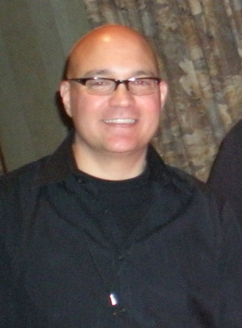 Chris Staros